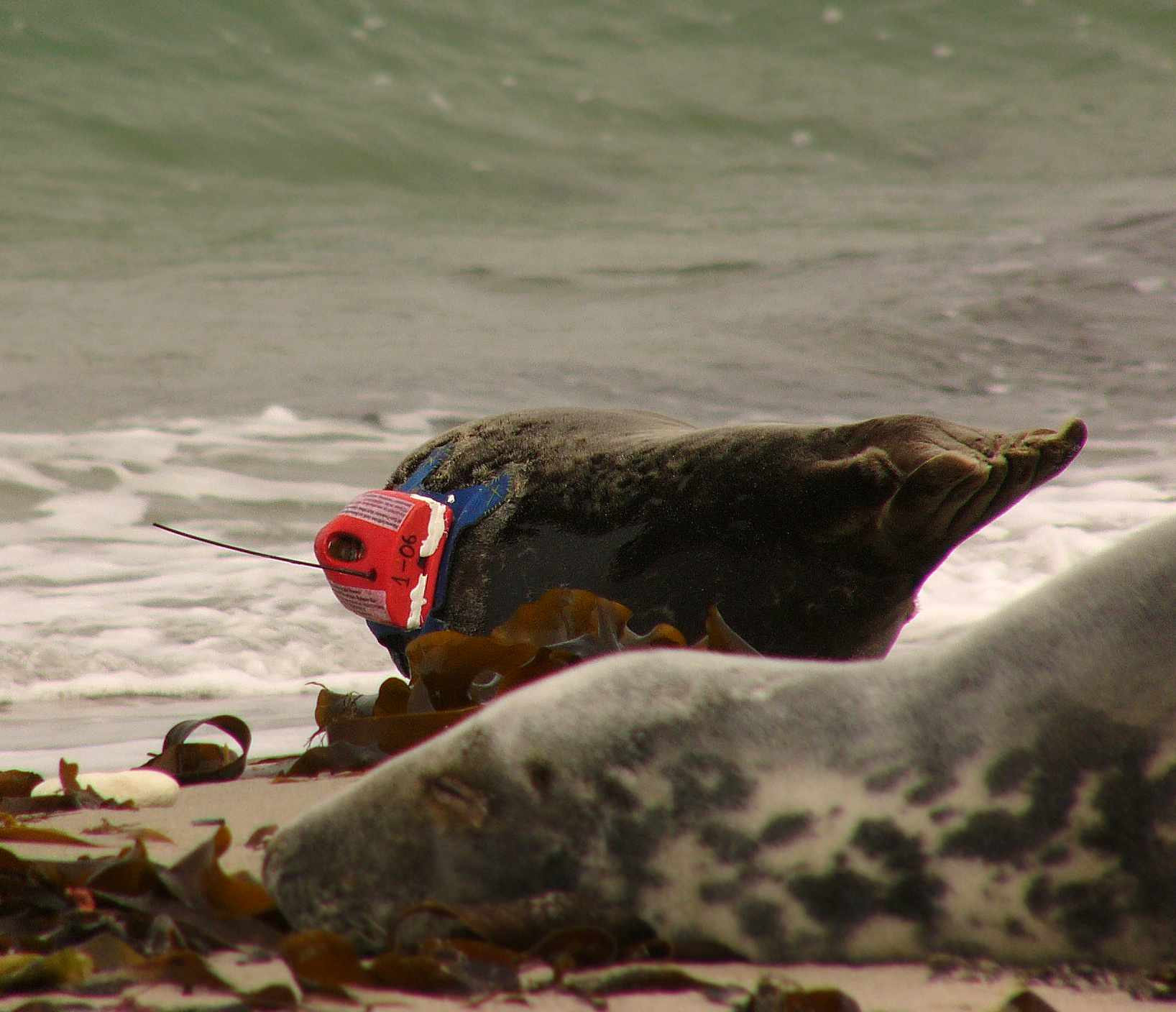 Grey Seal